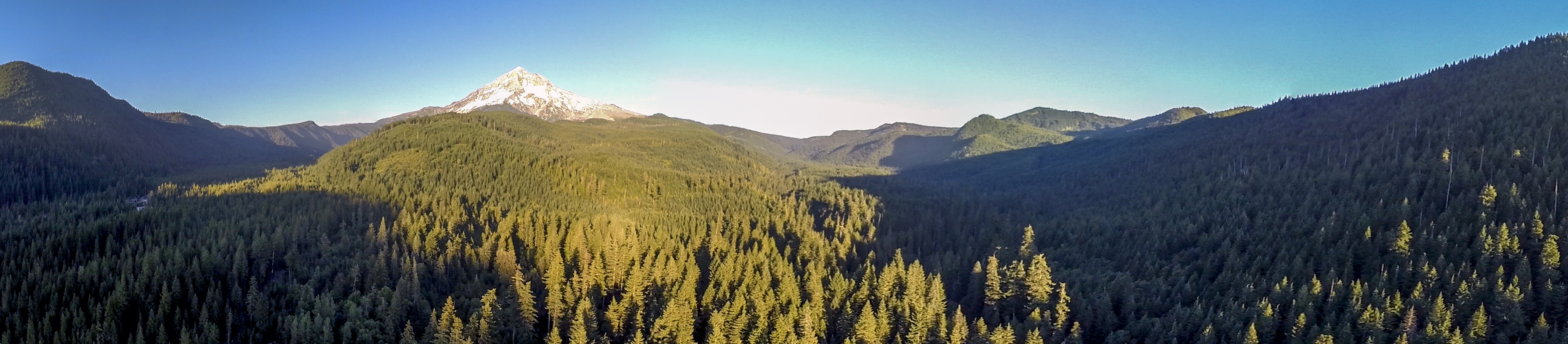 An aerial panorama of Mt. Hood and Lolo pass from above Lost Creek.